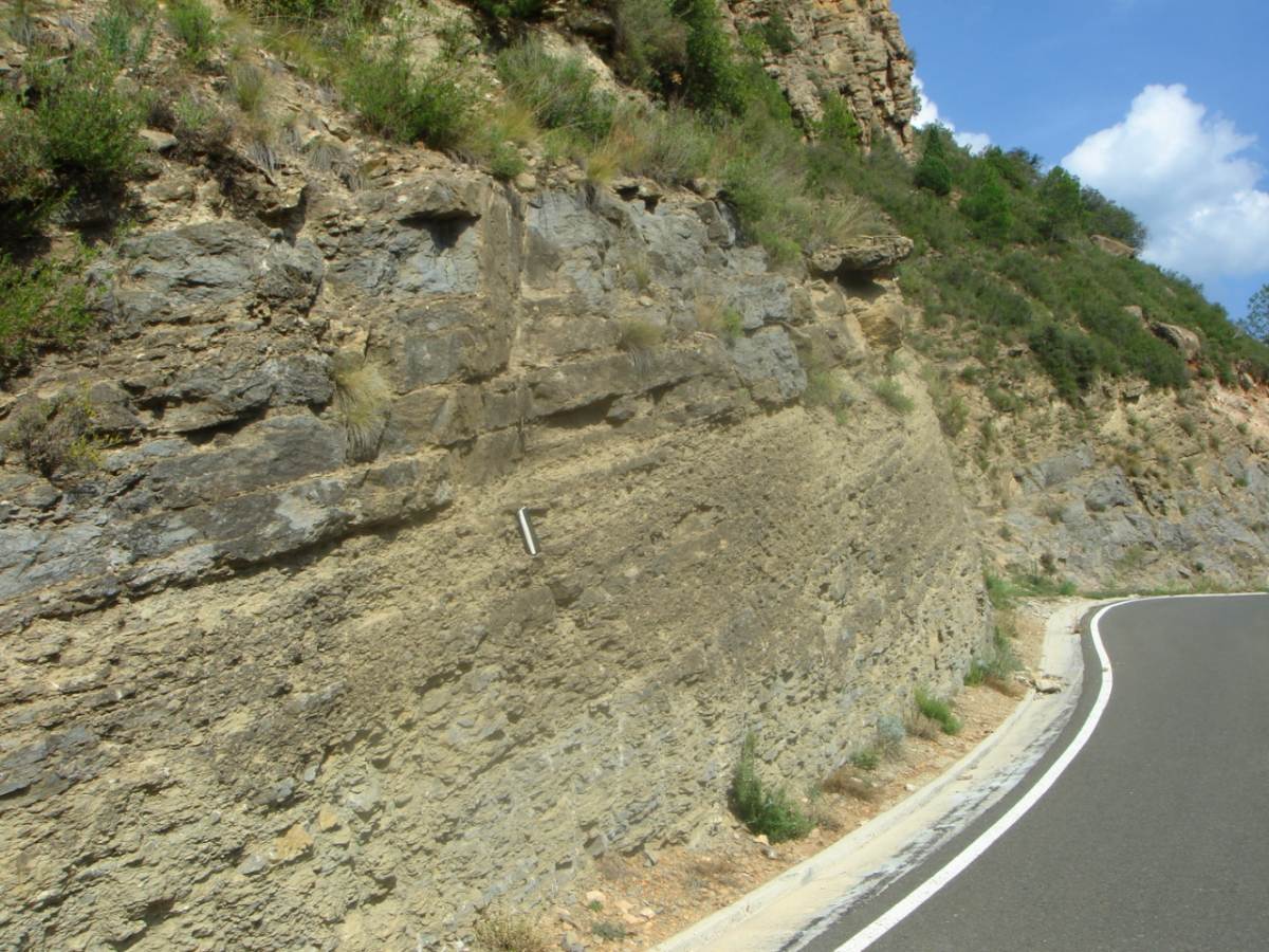 Limestone and marl section of the Tremp Formation. courtesy: M. Wiemer